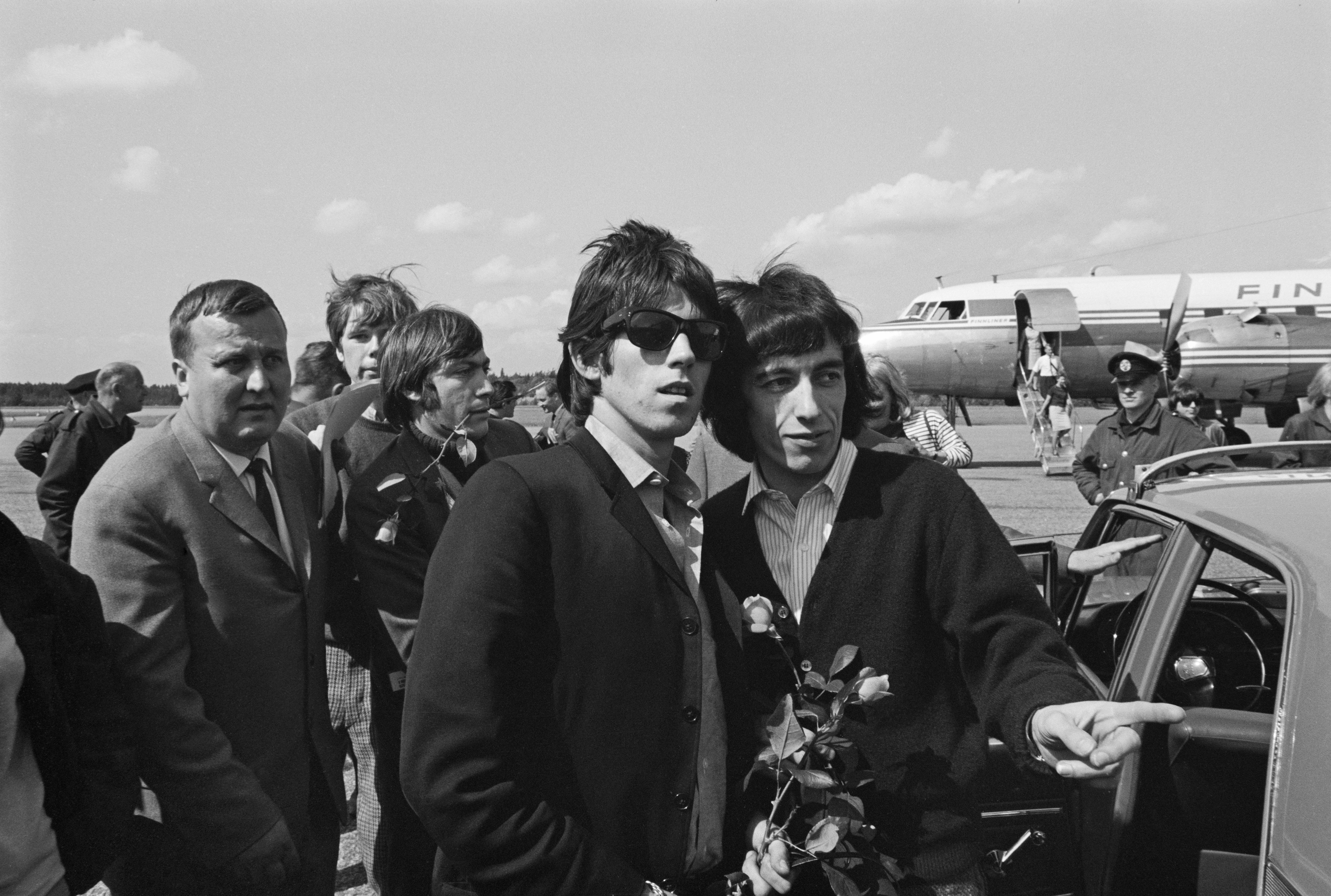 Photograph of The Rolling Stones members Keith Richards, Bill Wyman and Charlie Watts at Turku airport when arriving to Finland. To the left, the Finnish promotor Tauno Suojanen.